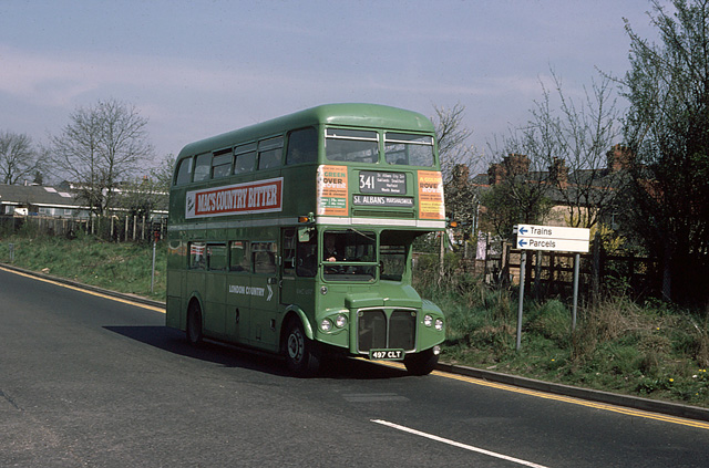 All aboard for Marshalswick. A 341 departs St. Albans City station for the suburbs. Originally built as a coach, now demoted to bus duties, RMC1497 sports National Bus Company leaf green livery. London Country green was much darker than this. The London Country Routemasters were retired quite a few years back, but see 642547 for a preserved example in the city centre.